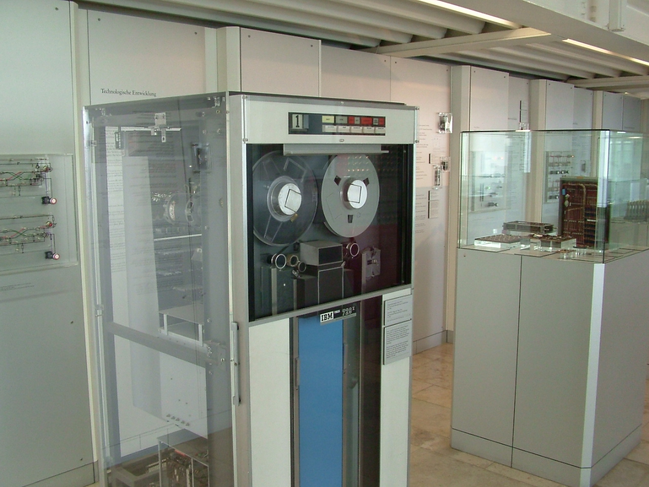 Photo of an IBM 729V magnetic tape unit taken by myself at the Deutsches Museum in Munich.